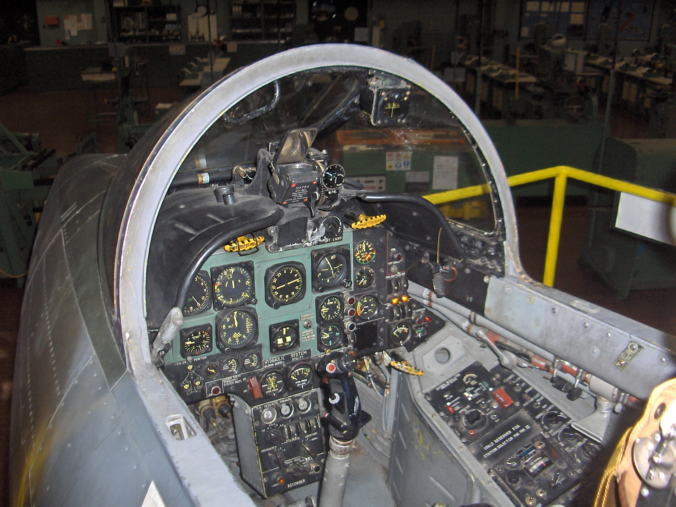 Cockpit of Fiat G.91R1 at Istituto Tecnico Industriale Aeronautico "Malignani", Udine (Italy)